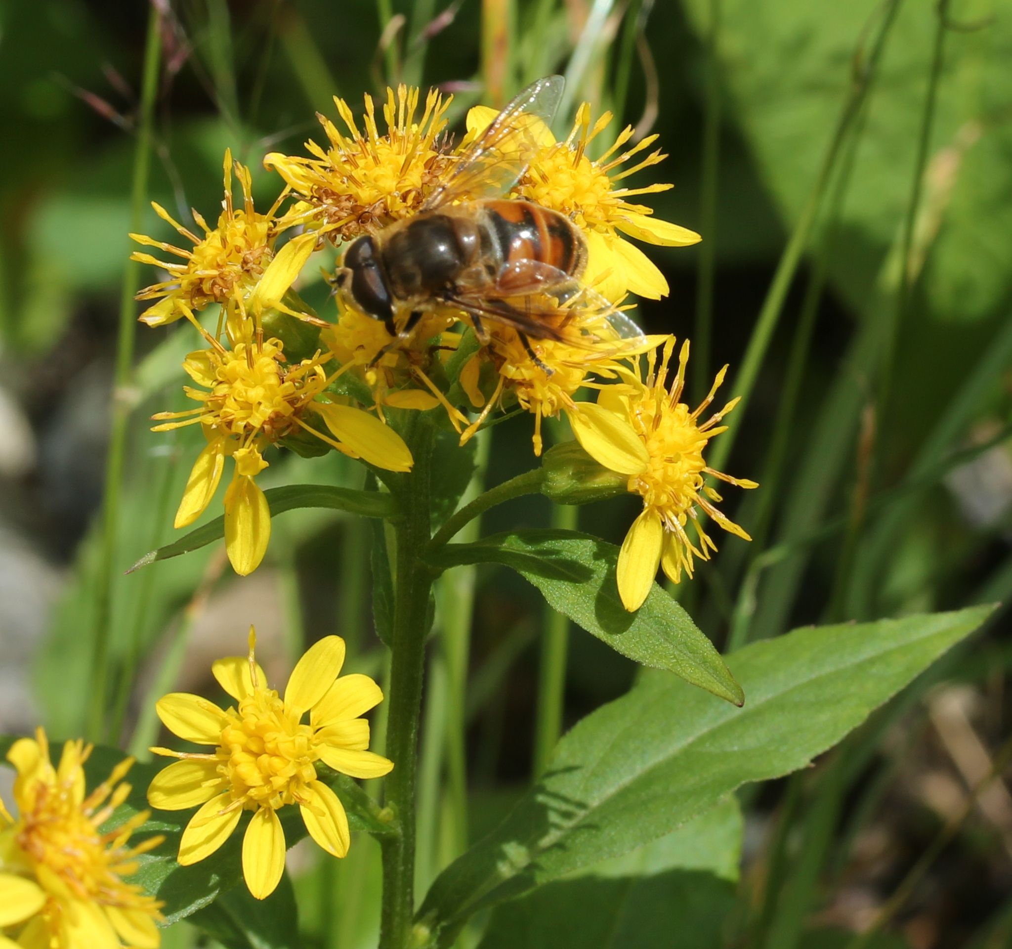 Solidago virgaurea L. subsp. leiocarpa (Benth.) Hultén, in Mount Norikura and Eristalis tenax, Takatama, Gifu pref., Japan.